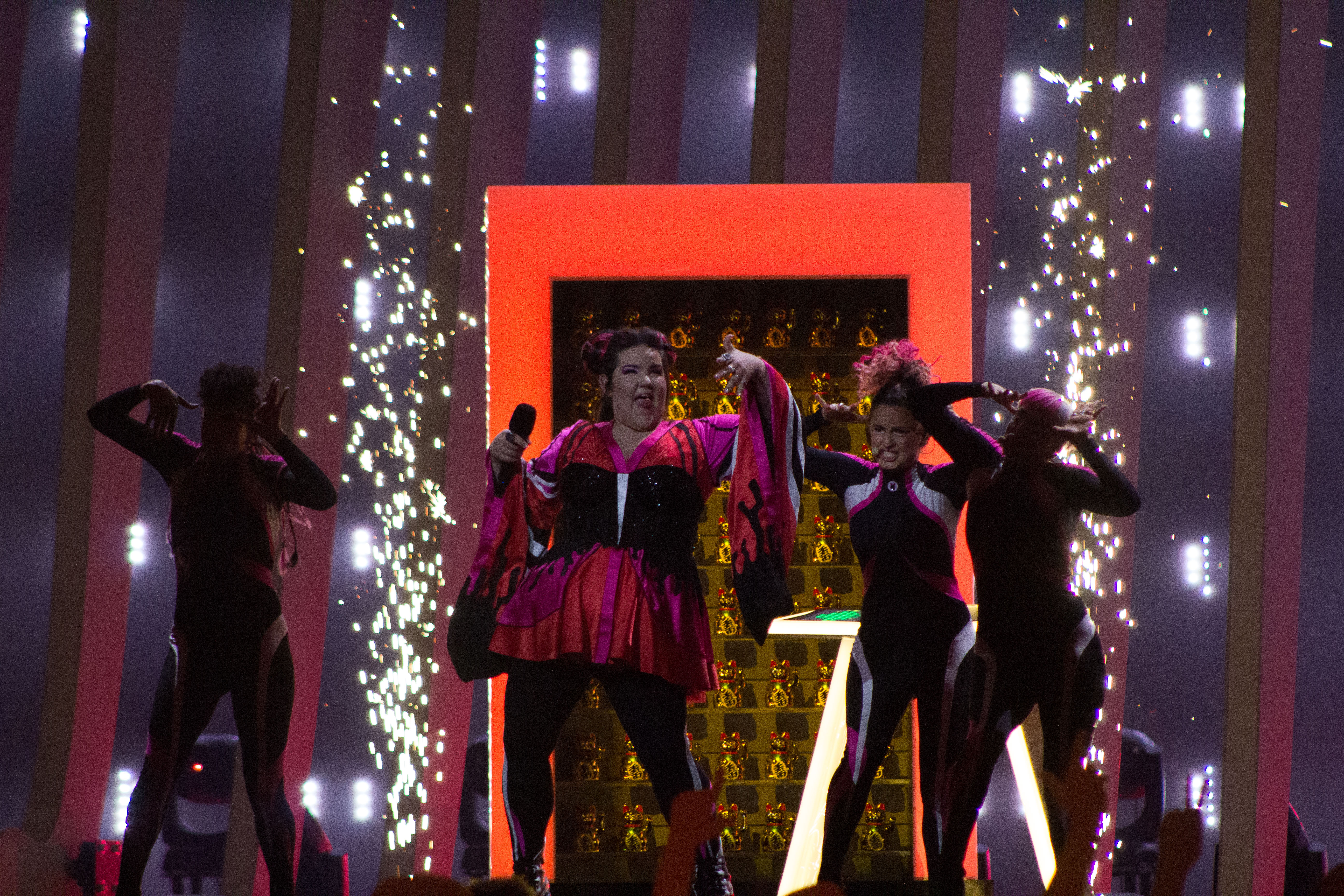 Netta representing Israel with the song "Toy" during a rehearsal before the first semi final of the Eurovision Song Contest 2018 in Lisbon.